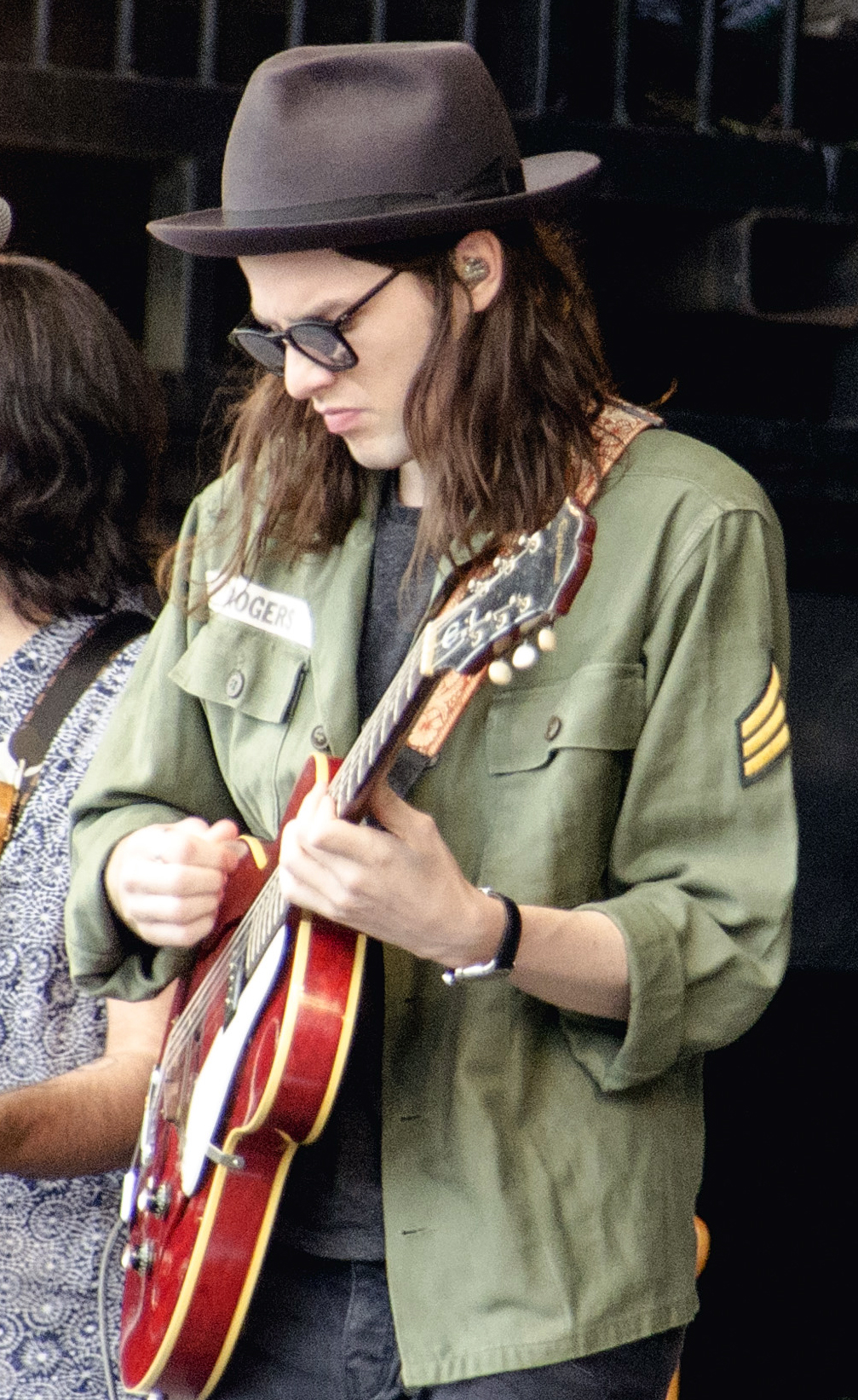 James Bay performing at the Glastonbury Festival of Contemporary Performing Arts 2015